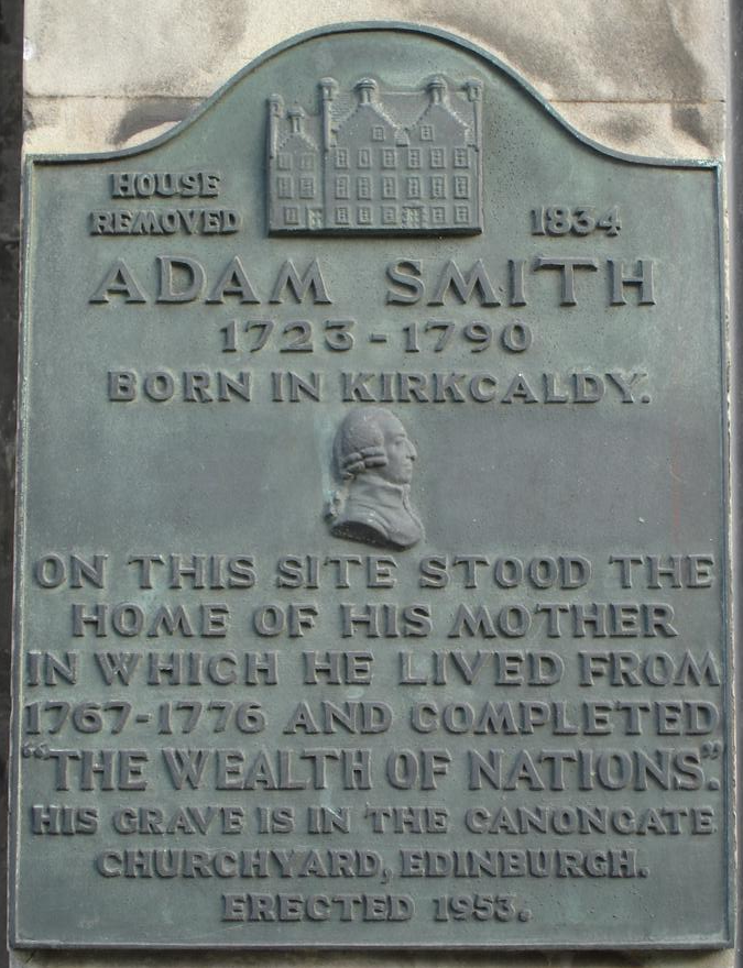 Plaque commemorating the house in which Adam Smith wrote The Wealth Of Nations.